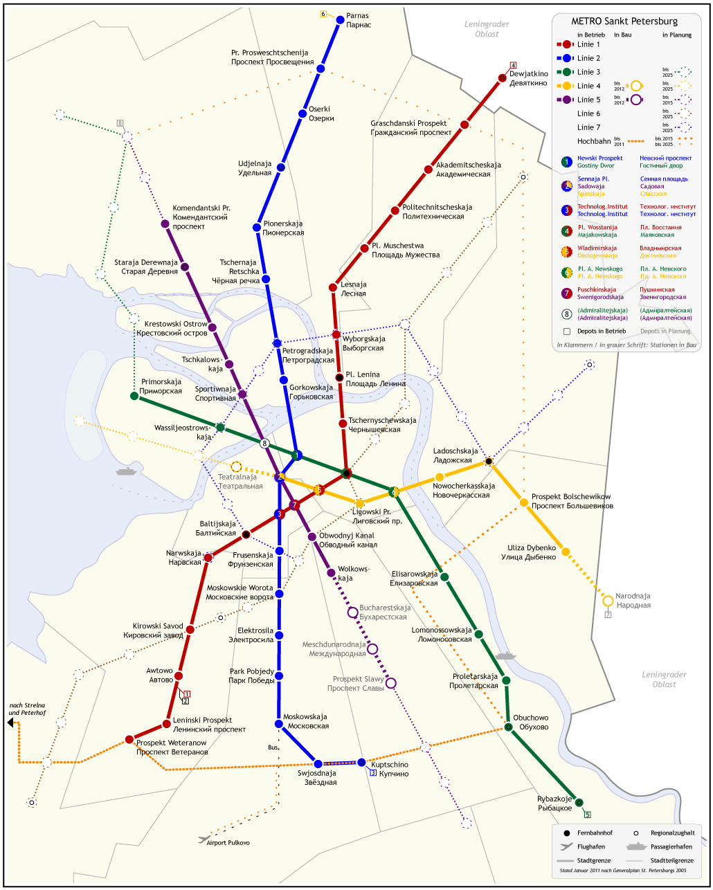 Map of the Underground system of St. Petersburg, Russia